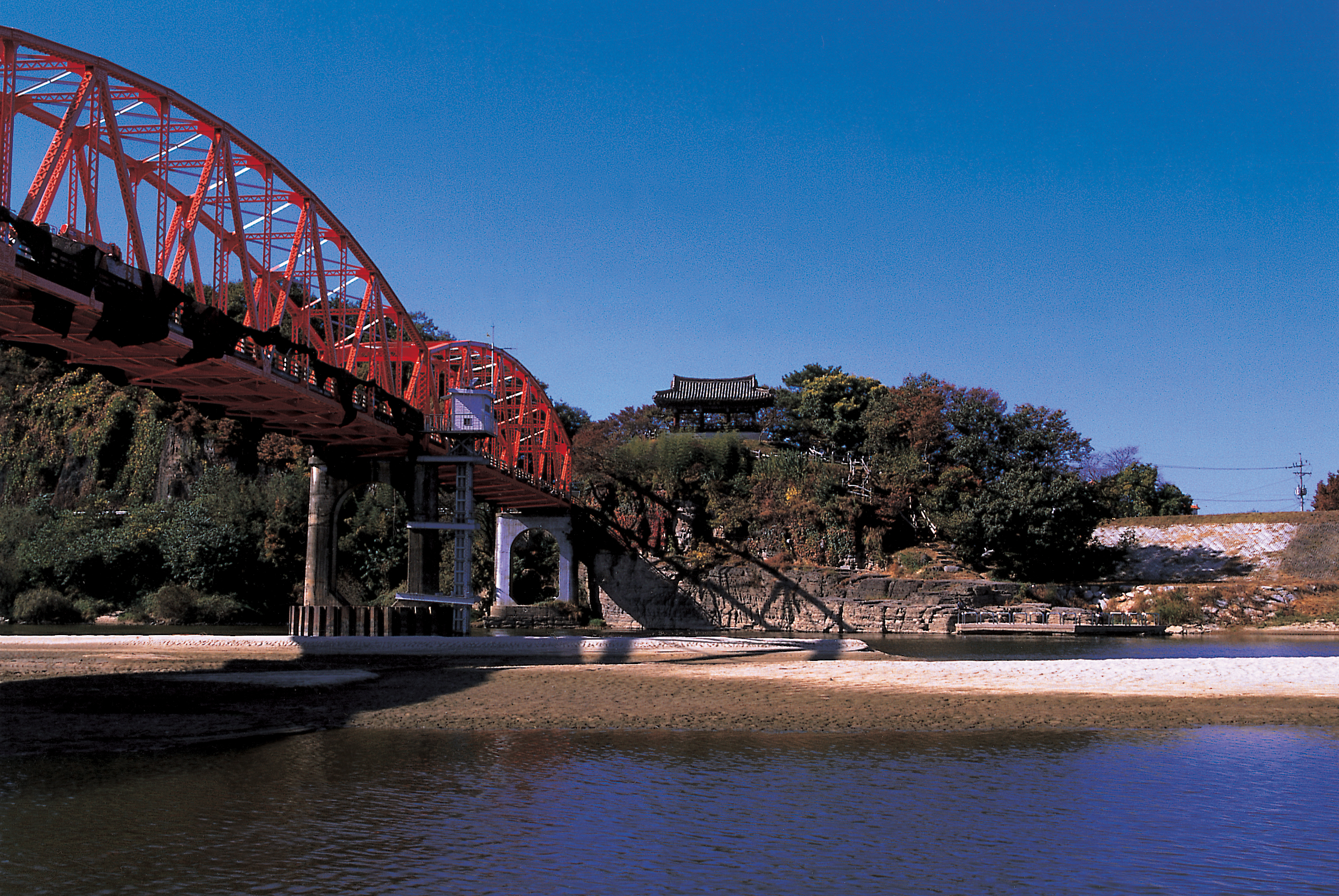 Jeongam Pavillion, Jeongam-ri, Uiryeong-eup, Uiryeong-gun, South Gyeongsang Province